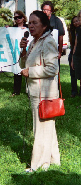 Dolores Huerta at the Plaza De la Guerra in Santa Barbara, California, speaking at a rally on behalf of the right of employees of the Santa Barbara News-Press to unionize.